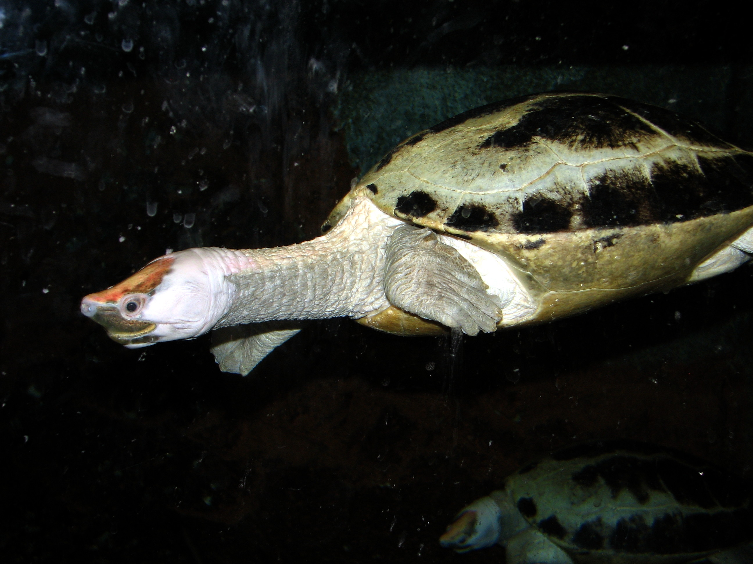 Malaysian Painted River Turtle (Callagur borneoensis) at Newport Aquarium